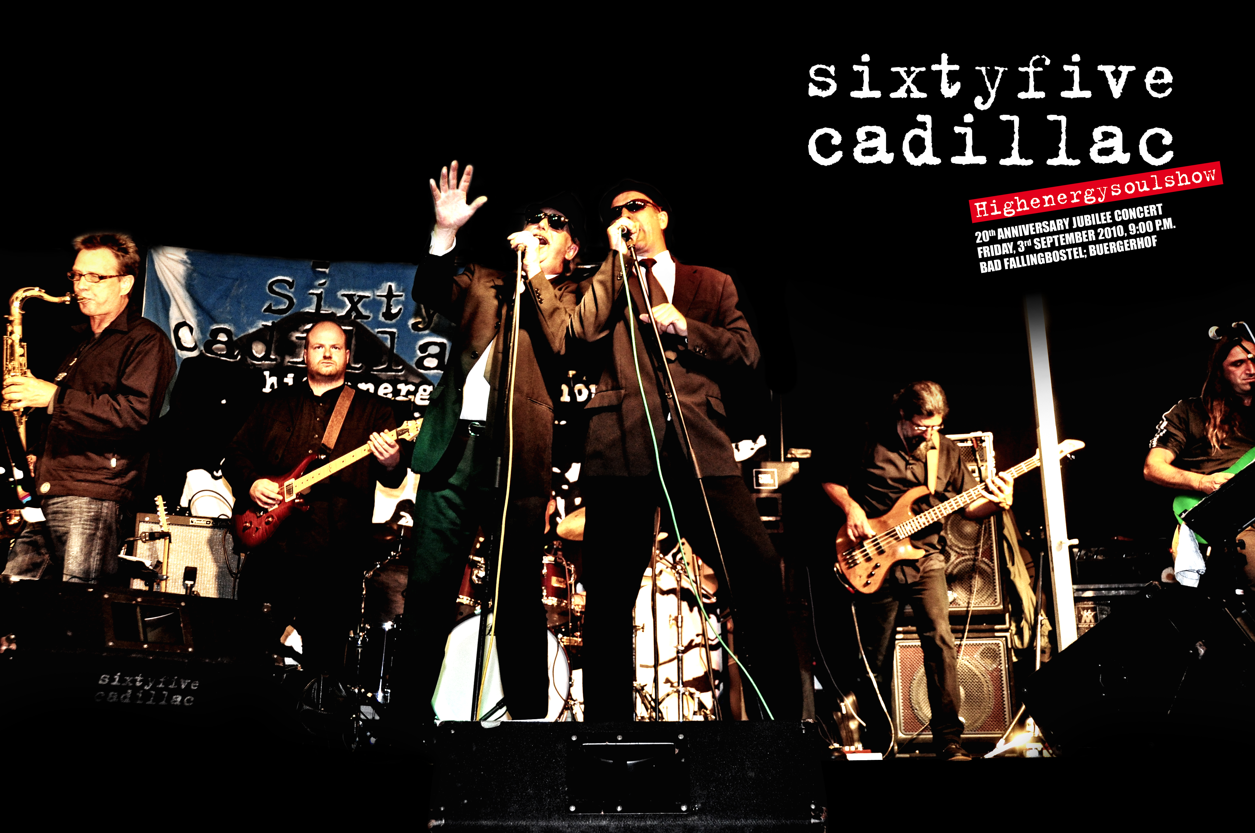 Sixtyfive Cadillac 20th Anniversary Jubilee Concert in Bad Fallingbostel, Germany